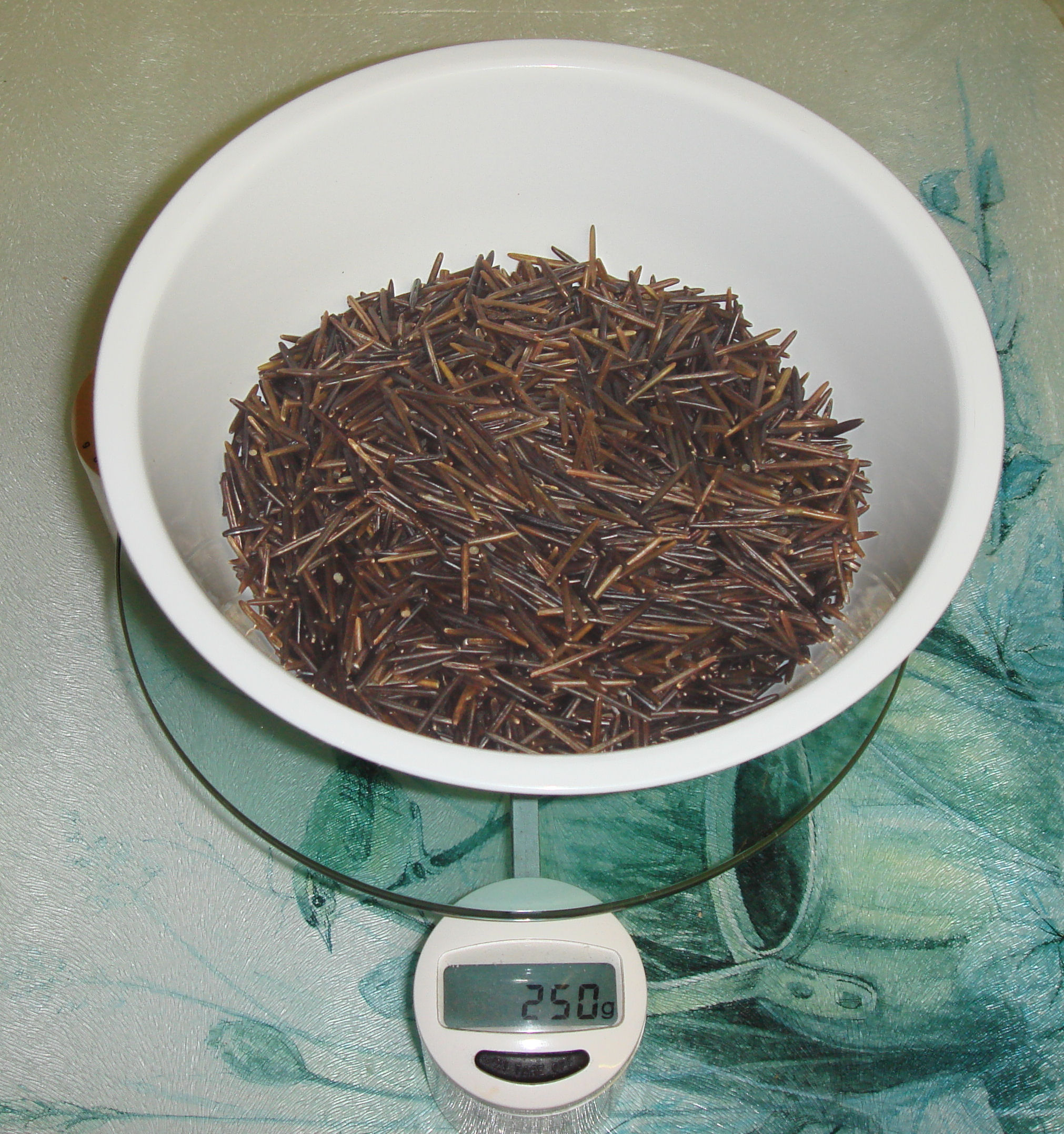 Uncooked wild rice. Photo taken by ElinorD and released as GFDL